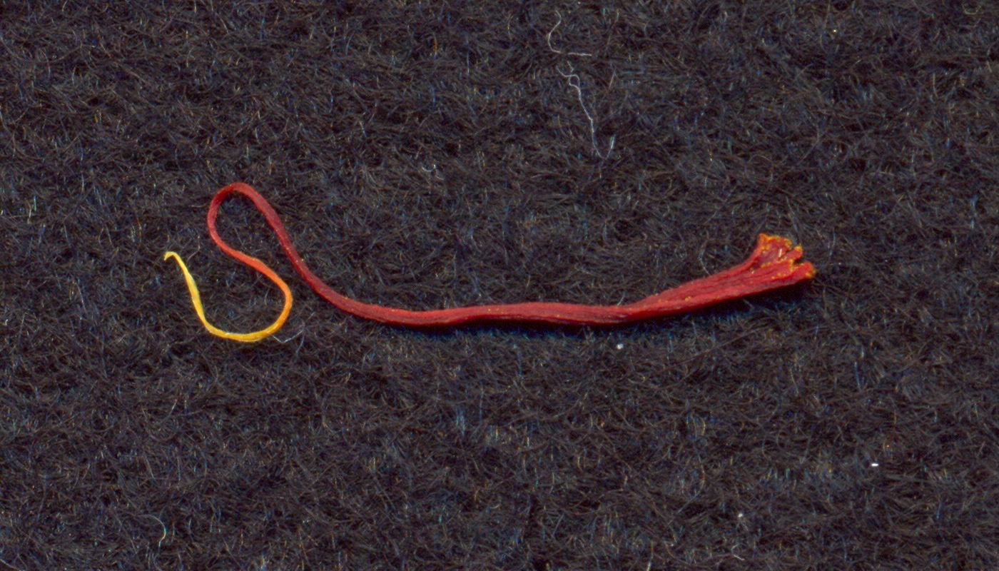 Magnified view of Greek red crocus thread. Length is about 20 mm.